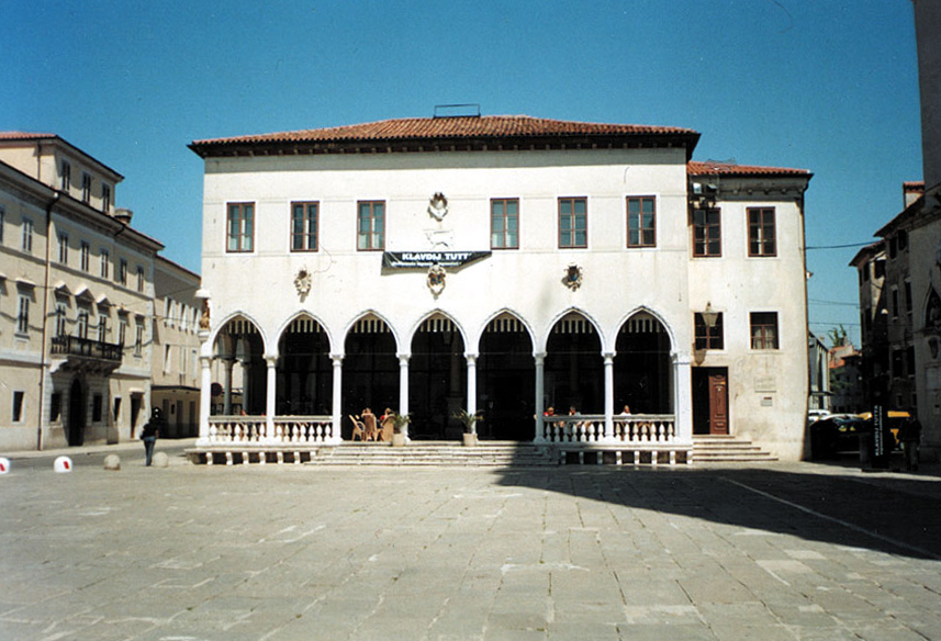 Loggia palace in Koper (Slovenia) Author - Andres rus Source - my photo